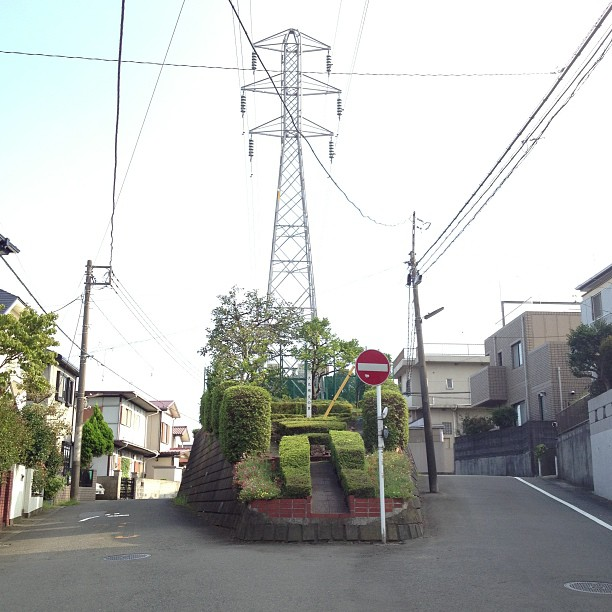 Transmission Tower and Garden in Mutsugawa, Yokohama city, Japan